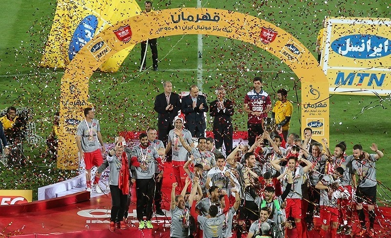 Persepolis F.C. title winning ceremony